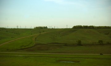 This is a Picture of some wind turbines located on Buffalo Ridge in Southwestern Minnesota. It was taken by Joe Karlisch in the spring of 2006